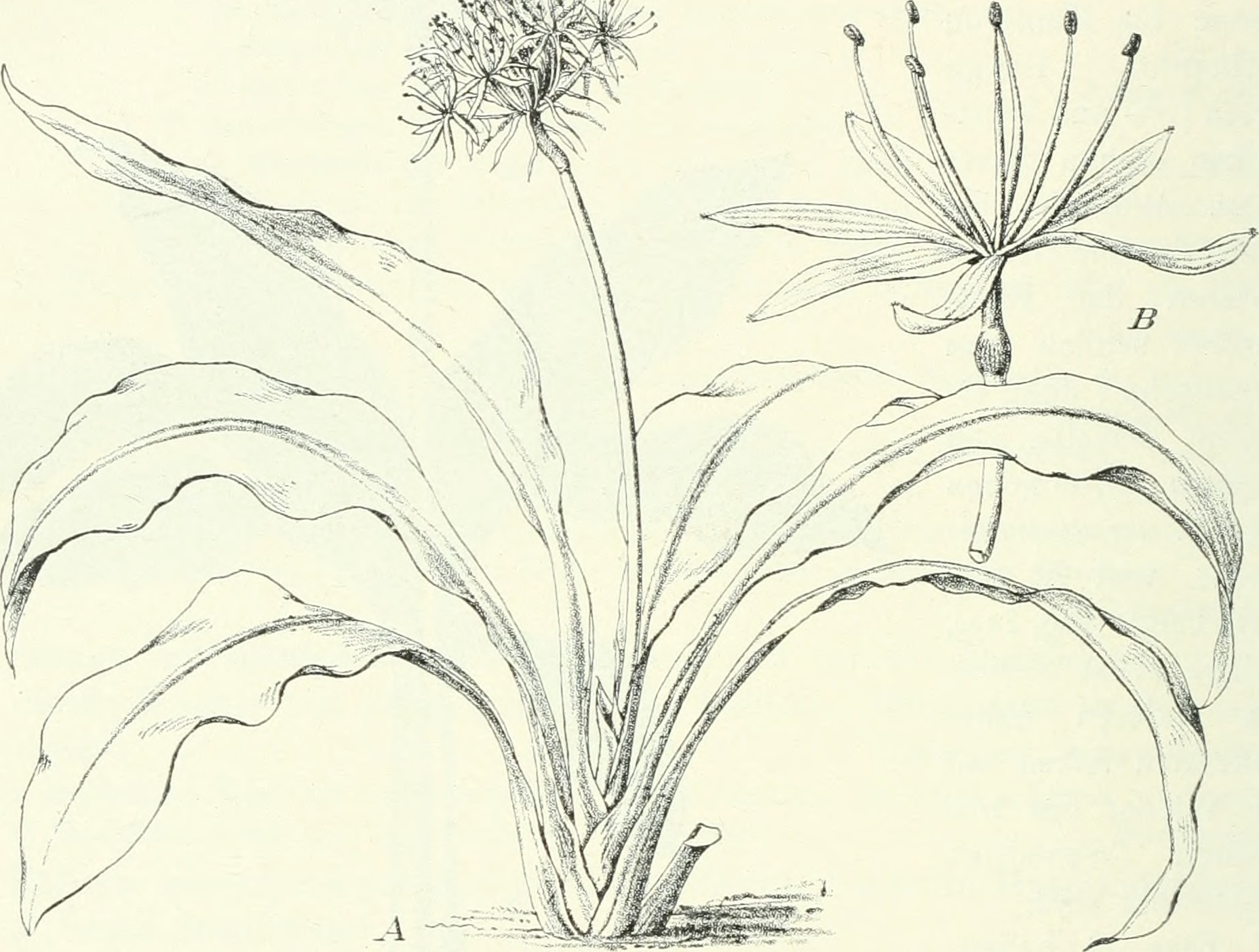 Title: Die Pflanzenwelt Afrikas, insbesondere seiner tropischen Gebiete : Grundzge der Pflanzenverbreitung im Afrika und die Charakterpflanzen Afrikas Year: 1910 (1910s) Authors: Engler, Adolf, 1844-1930 Subjects: Botany Publisher: Leipzig : W. Engelman Text Appearing Before Image: 346 Liliiflorae. — Amaryllidaceae. am Ende rotbraunen Niederblättern, rotbraunen Involukralblättern und grünen Blüten, an feuchten Plätzen in Natal und Griqualand, H. pmiicens L., mit kurzem Stamm und deutlich gestielten Blättern, mit grünen Bracteen und blaßroten Blüten, von Natal und Tembuland südwärts bis in die Gegend von Port Elisa- beth; diese letzteren Arten sind alle seit längerer Zeit in Kultur. Von der Untergattung MelicJio Salisb. mit dicken, zweireihig stehenden Zwiebelblättern und zwei dicken fleischigen Laubblättern und ausgebreiteten Bracteen finden sich H. montaiuis Bak. und H. candidiis Bull, im oberen Natal. Die im Kapland Text Appearing After Image: Fig. 244. Haemanthus longipes Engl. A Habitus, ^j^ n. Gr.; B Blüte. — Original. reichlich entwickelte Untergattung Diacles Salisb., mit abstehenden Bracteen und Perigonabschnitten, kommt auch noch in Natal vor: sehr auffallende Pflanzen sind H. deformis Hook, f., bei welcher vier kreisförmige, behaarte Laubblätter die weiße Inflorescenz nur wenig hervortreten lassen, ferner H. hirsutiis Bak. mit zwei länglich-runden behaarten Blättern, kurzem Blütenstand und leuchtend roten Bracteen, welche einen roten Blütenstand einschließen, in Natal und bei Barberton in Transvaal. Buphane Herb. Mächtige Zwiebelgewächse, von der vorigen beerenfrüch- tigen Gattung durch kreiseiförmige Kapselfrüchte verschieden. — Von den drei Arten ist besonders zu beachten: B. disticha (L. f) Herb, mit oft 2 dm im Durchmesser haltender Zwiebel, mit zweireihig gestellten, lederartigen, schwert